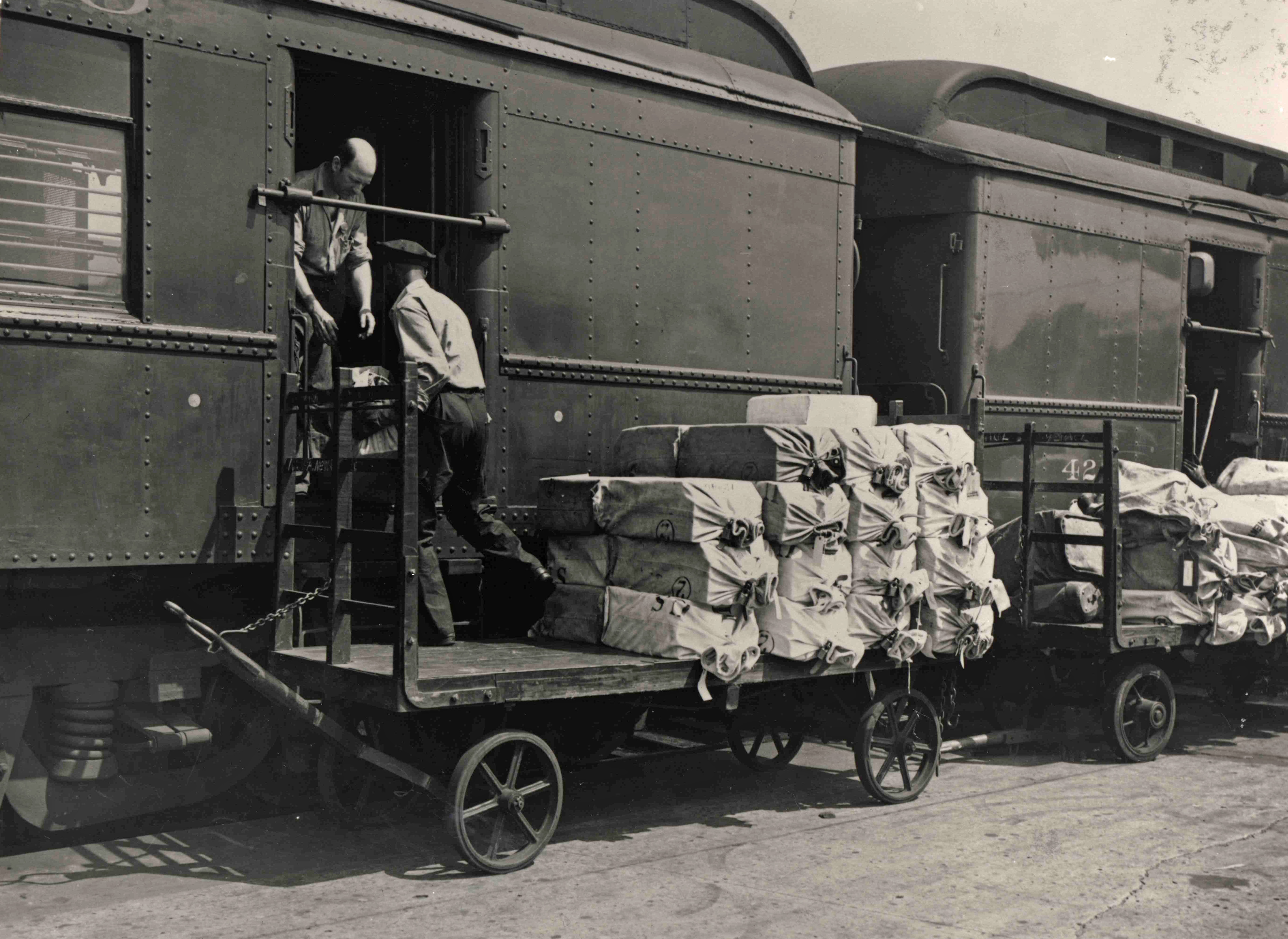 Description: This is an image of sacks of mail being loaded onto a Railway Post Office (RPO) car. The metal RPO mail exchange arm can clearly be seen on the car door. Creator/Photographer: Unidentified photographer Medium: Black and white photographic print Culture: American Geography: USA Date: 1925 Collection: U.S. Railway Mail Service Repository: National Postal Museum Accession number: A.2006-59